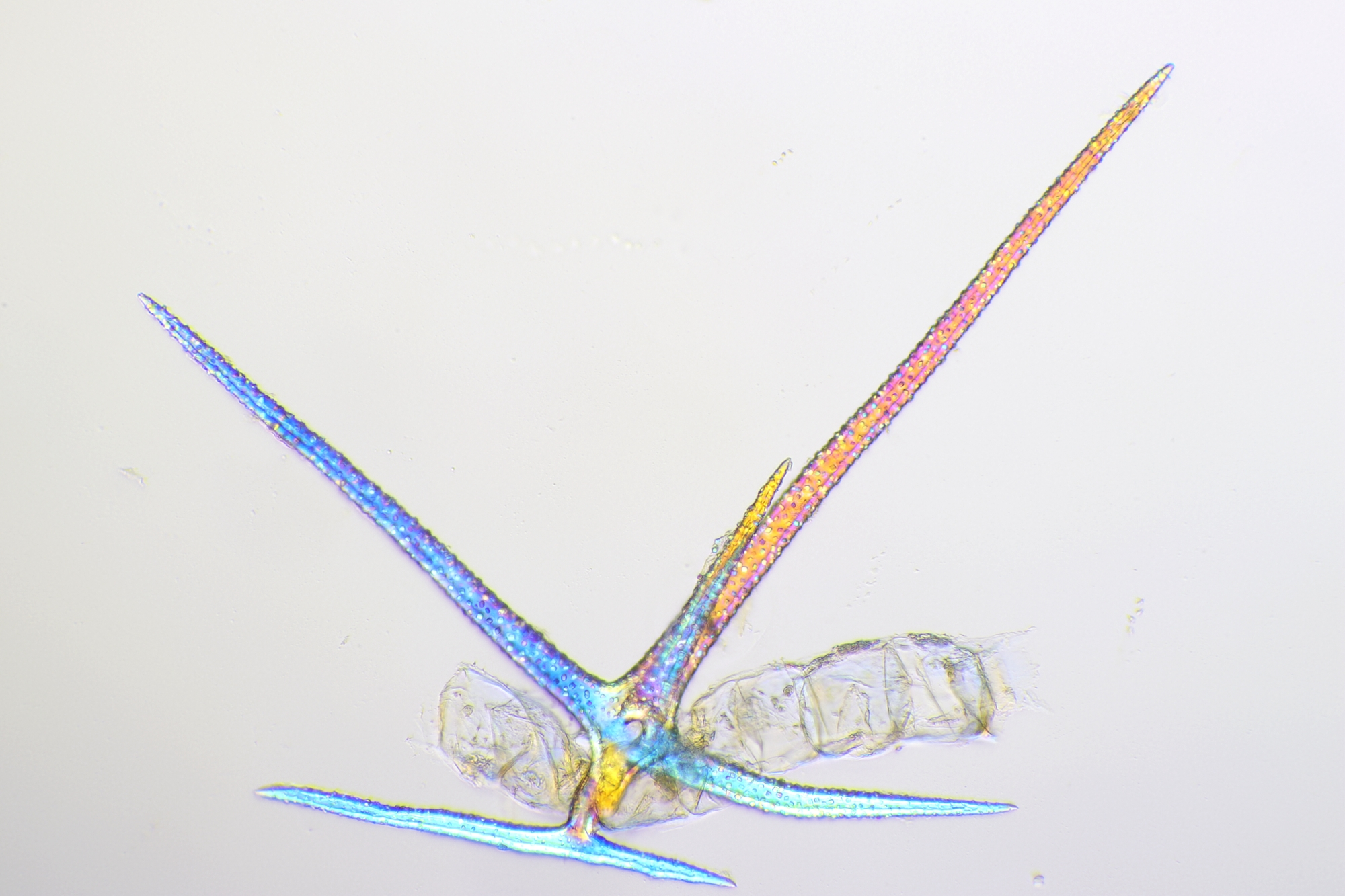 Astrosklereid aus dem Blattstiel von Nymphaea spec. im polarisierten Licht